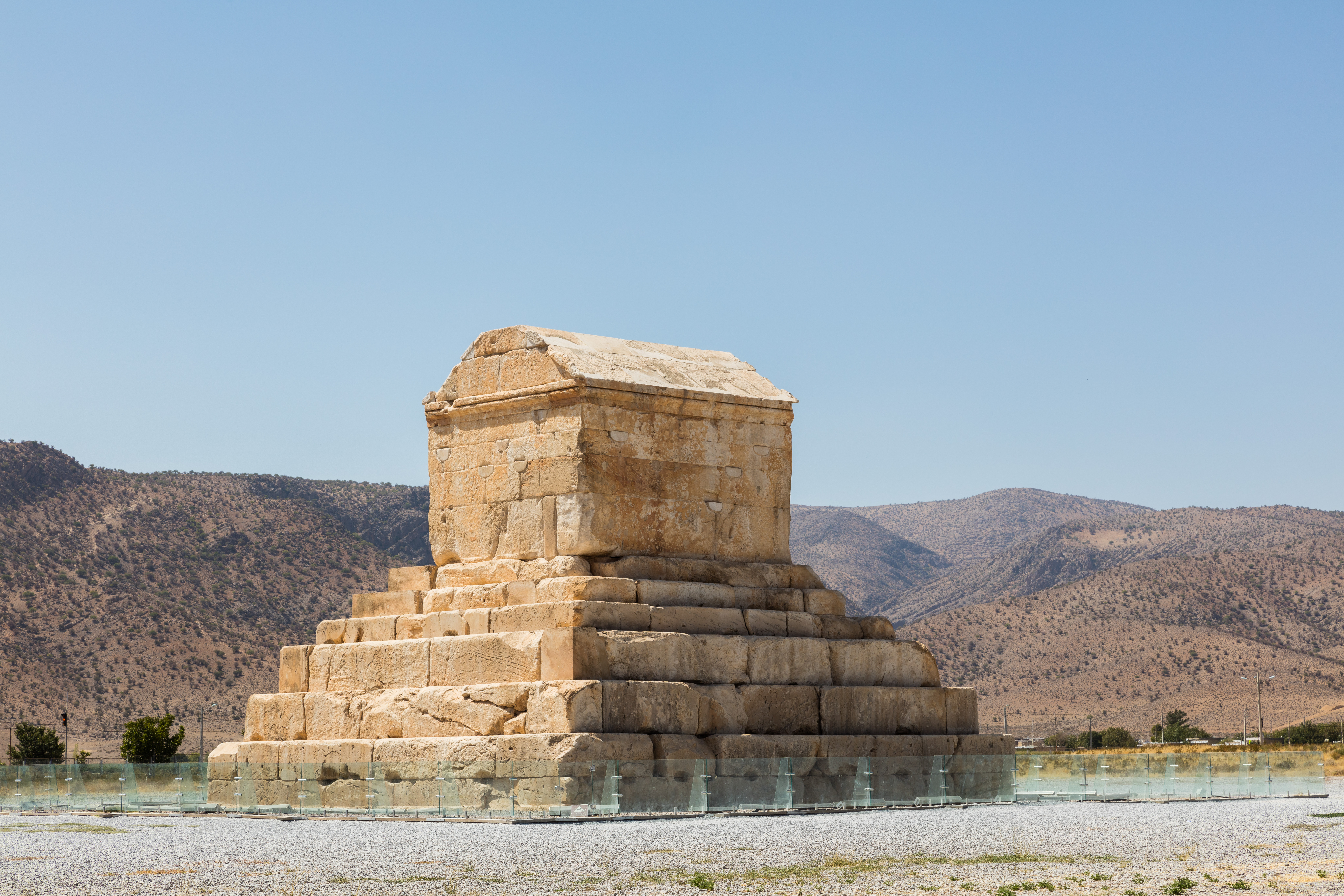 Pasargadae, Iran